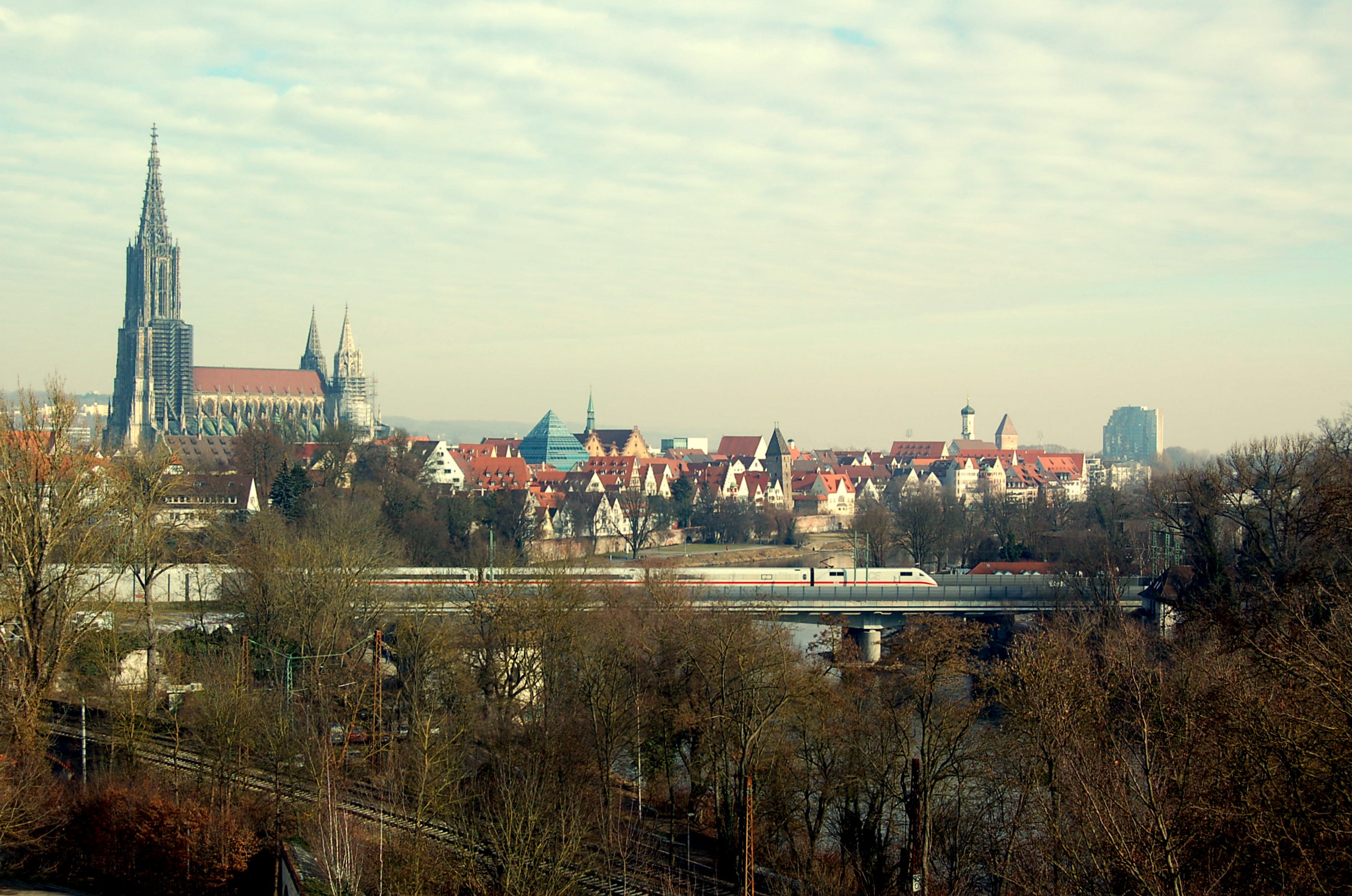 the skyline of the beautiful city of ulm with the ulm cathedral in the back and the river danube in the front.